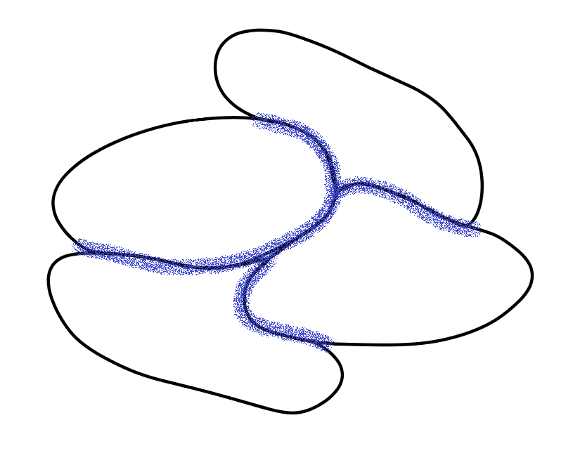 Microcracking from stress concentrations at grain boundaries